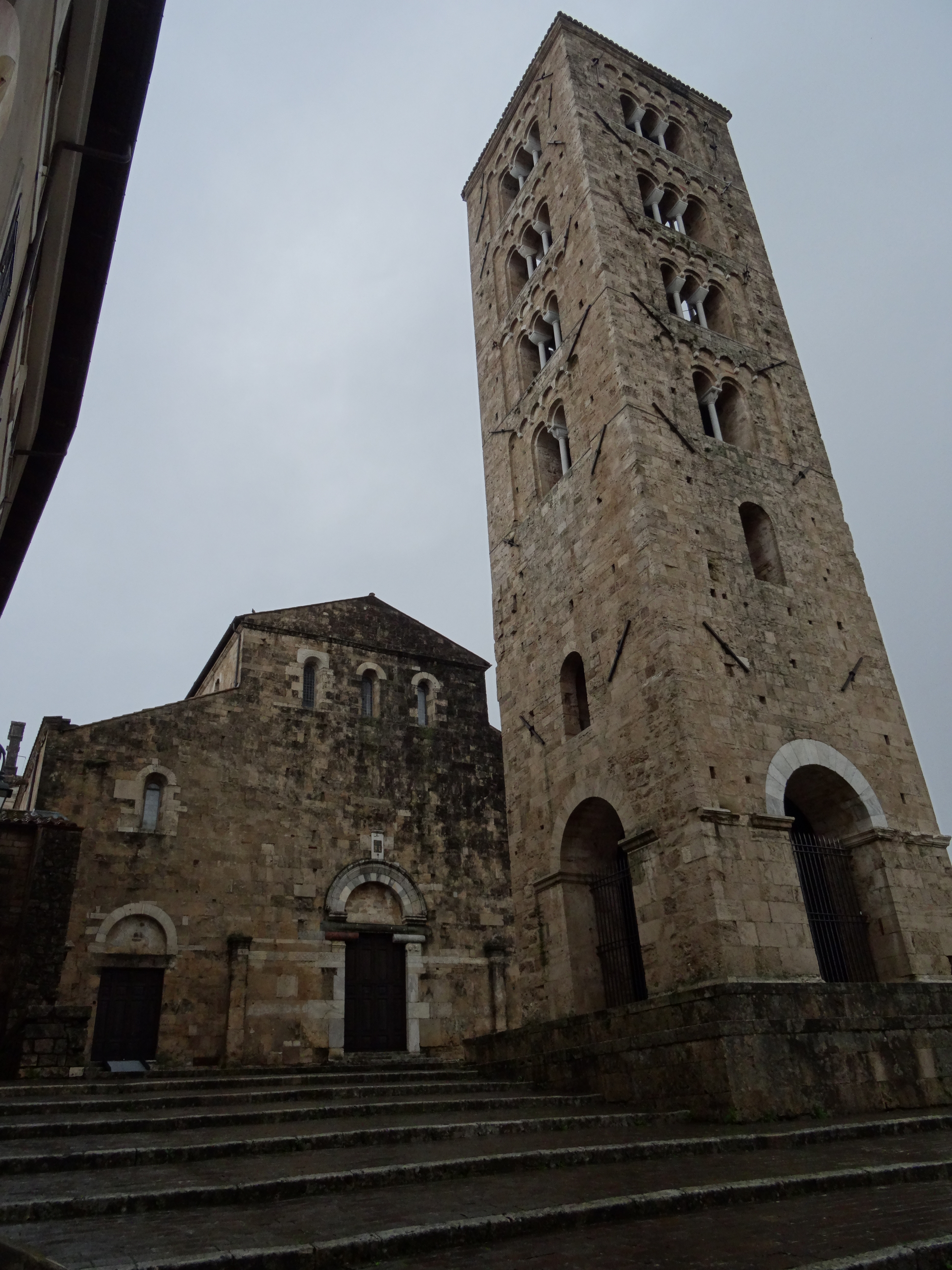 Cattedrale di Santa Maria (Anagni) con campanile